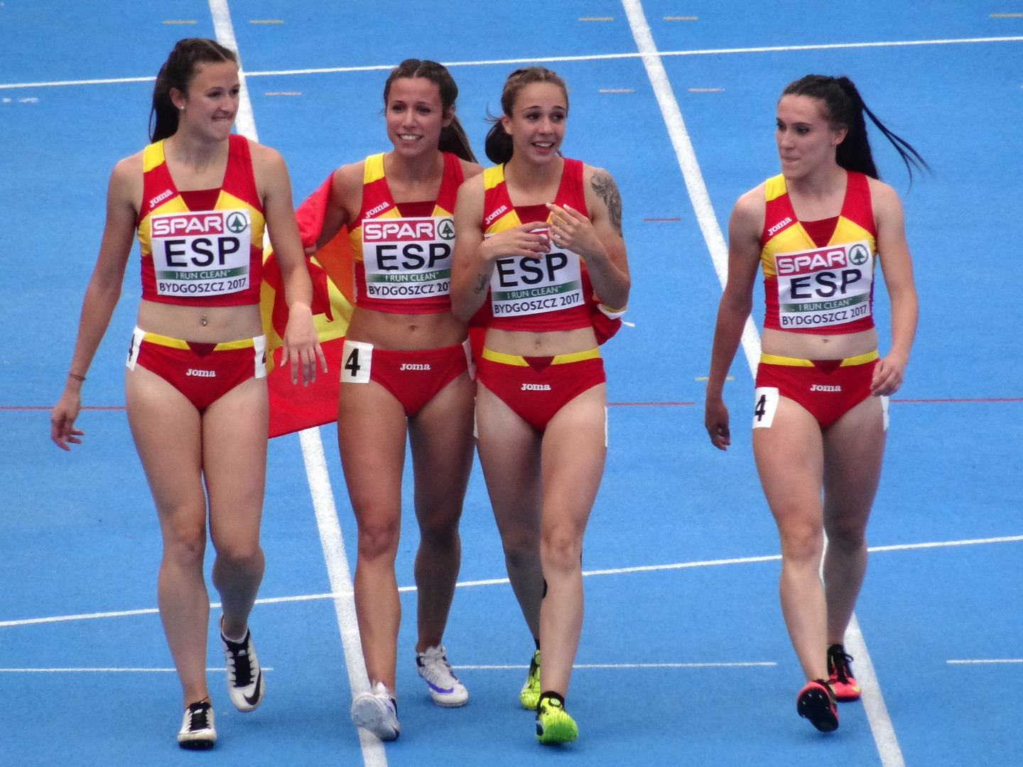 2017 European Athletics U23 Championships, 4x100m relay women final